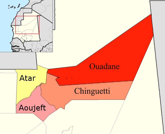 Map of the departments of Adrar region of Mauritania. Adapted by User:McTrixie using GIMP, from Image:Adrar departments.png created by Rarelibra and from Image:Adrar Departments.png by User McTrixie. Summary of changes to original image: two simple enlargements of the names on the map; redone a second time because the names on the map were still small.